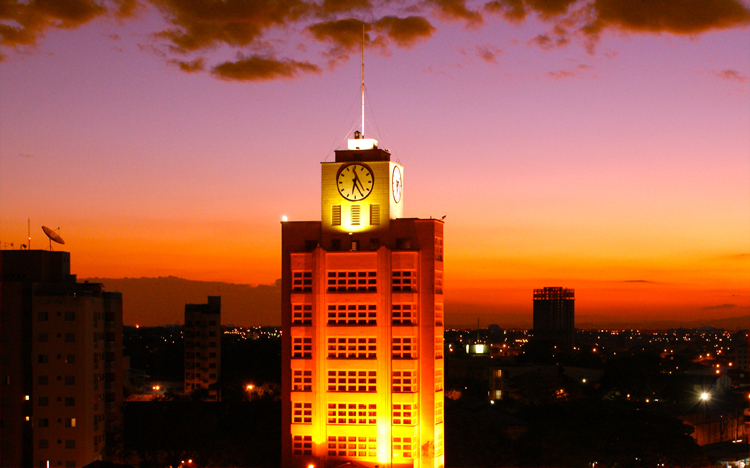 CTI - CENTRO TAUBATÉ INDUSTRIAL